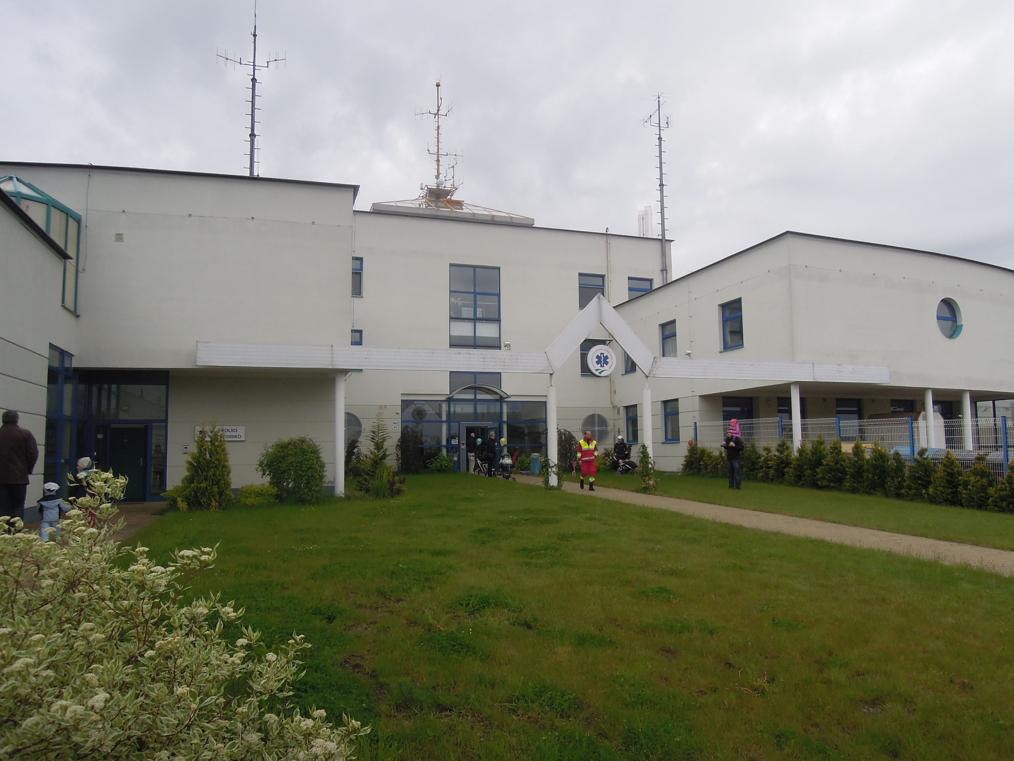 Center of ambulance of Zdravotnická záchranná služba Kraje Vysočina in Jihlava, Czech Republic